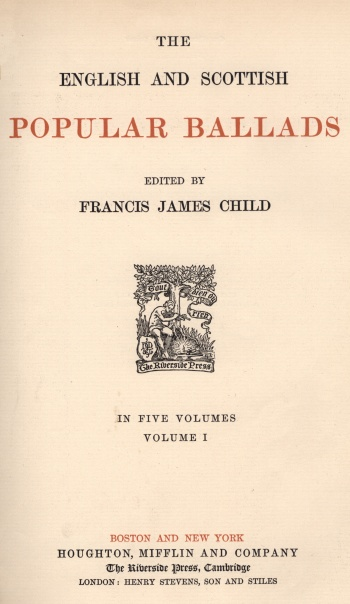 Cover frontispiece of Francis James Child's English and Scottish Popular Ballads, 1904 edition